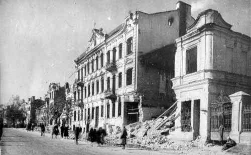 Geležinkelio street in Vilnius